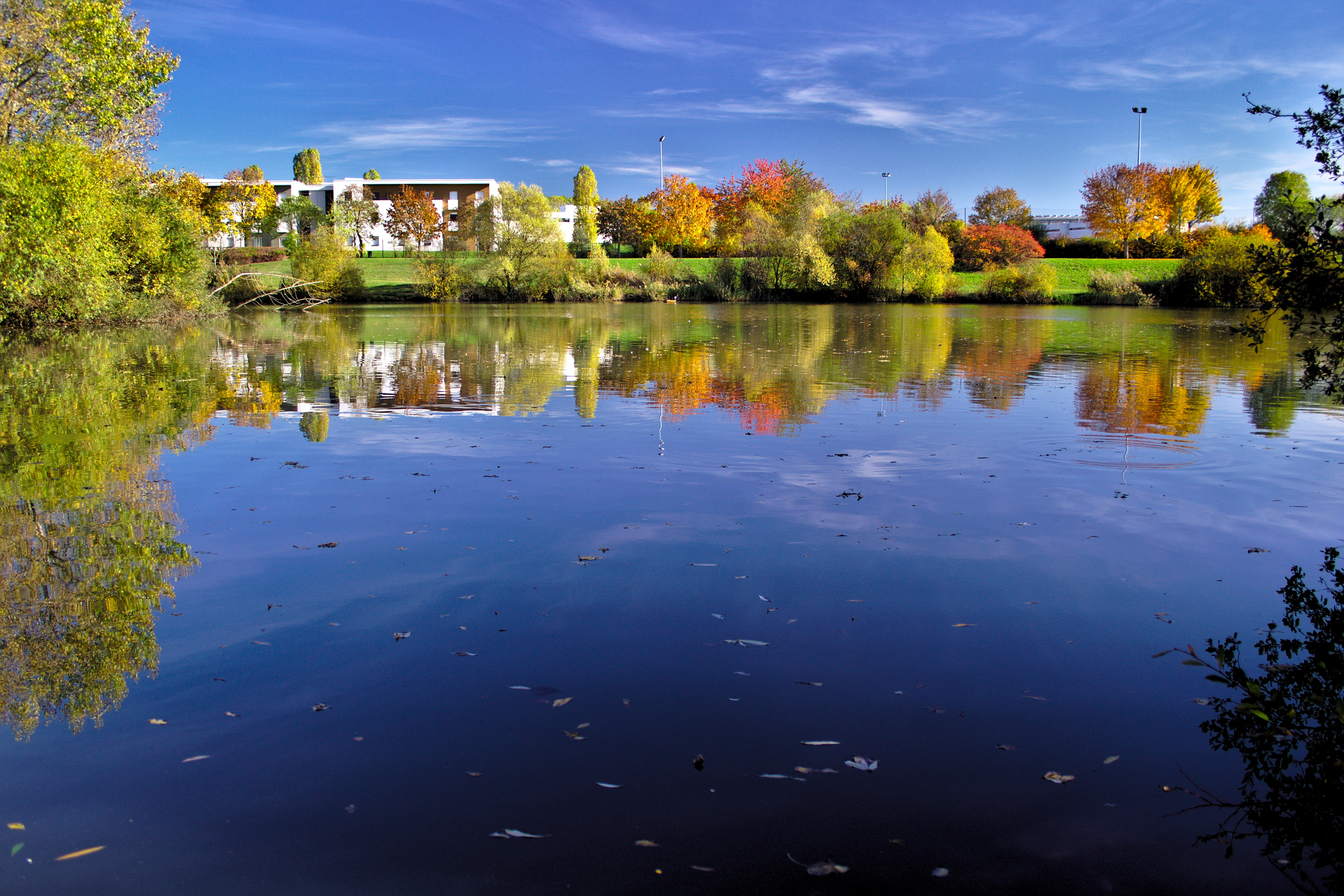 Lake Symphonie, retention pond for La Cheneau creek, in the Metcz Technopole center. By the lake, ALOES CentraleSupélec students accommodation. The Institut de Chimie et Physique de Metz can also be seen